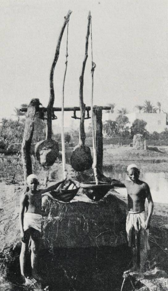 Shâdûfs. Two boys standing next to a mechanism for dunking baskets into the river.